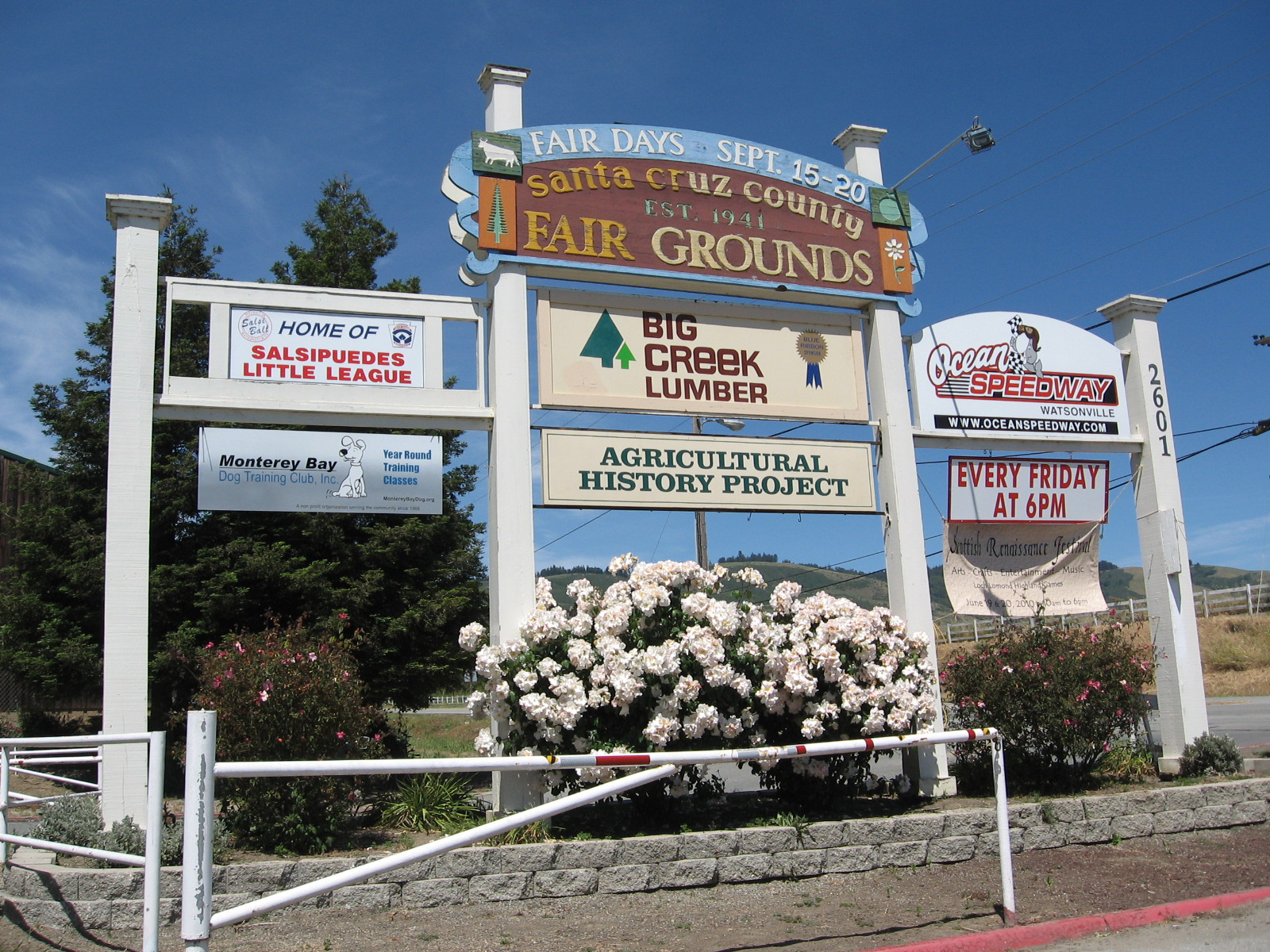 Entrance sign for the Santa Cruz County Fair Grounds, in Watsonville, California.